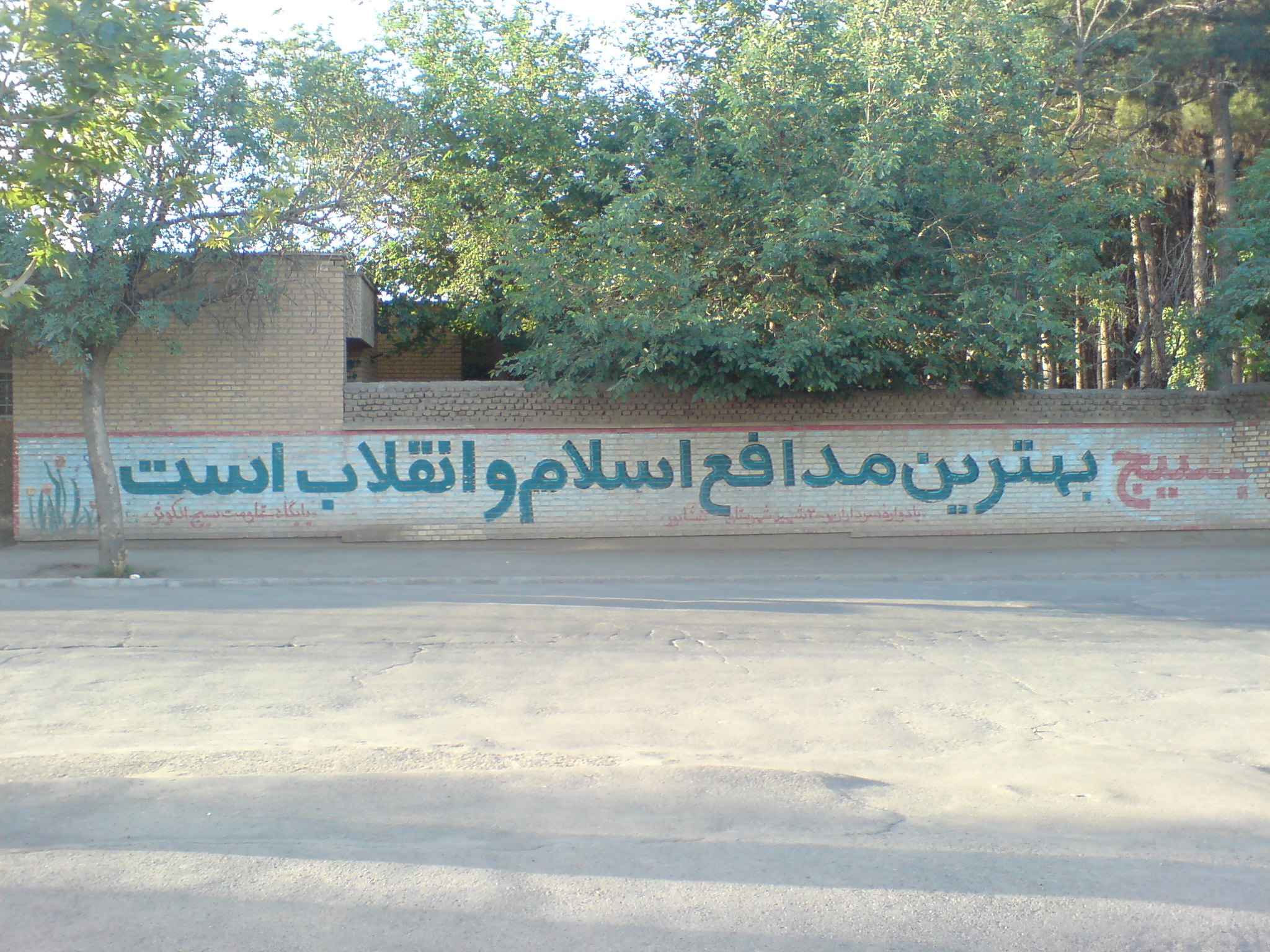 Wallpainting_in_Nishapur_10 : Basij is the best defender of Islam and the revolution.